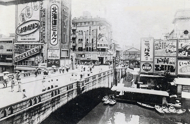 Ebisubashi,Osaka in 1951